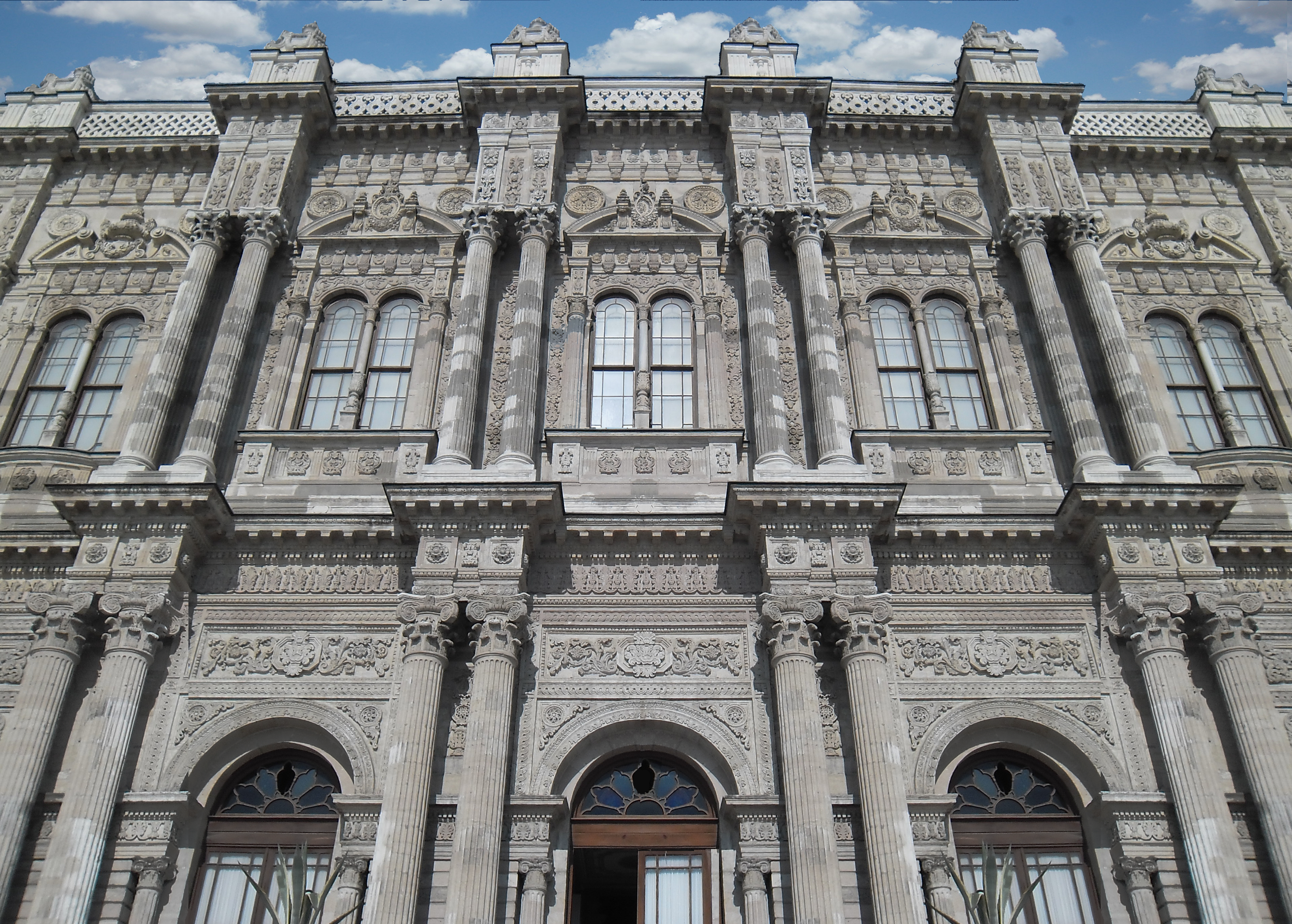 Photograph of the Ottoman Dolmabahçe Saray in Istanbul, Turkey.